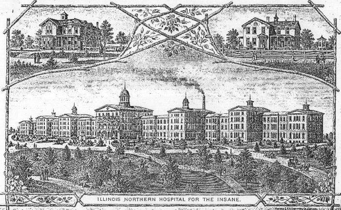 Historic print of the main building at Elgin State Hospital — Northern Illinois Hospital and Asylum for the Insane which was demolished in 1993.